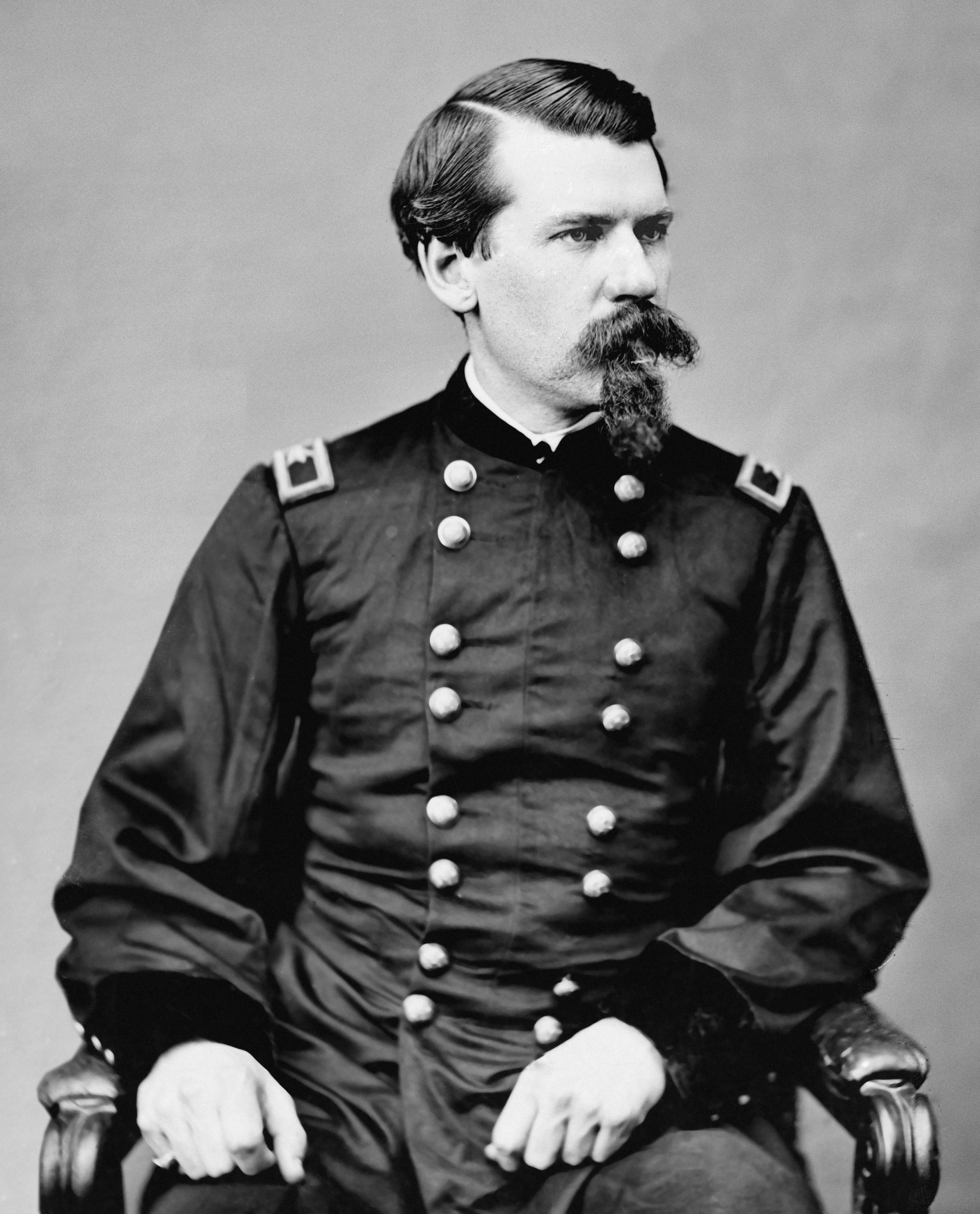 Horace Porter. Library of Congress description: "Gen. Horace Porter, U.S.A."